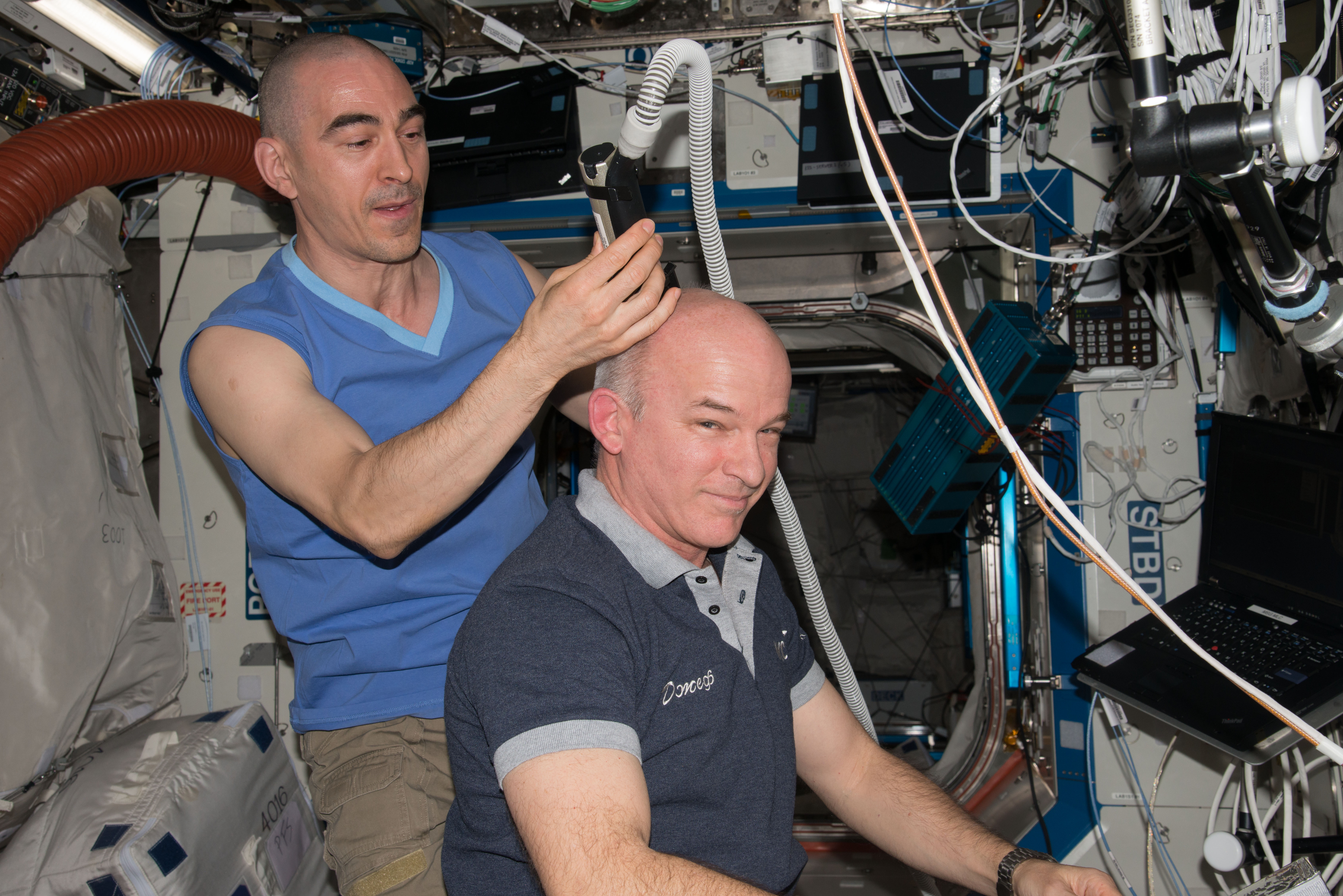 NASA astronaut Jeff Williams (right) gets a haircut aboard the International Space Station from Russian cosmonaut Anatoly Ivanishin (left.) The electric razor includes a vacuum hose to keep the tiny hair follicles from floating away.